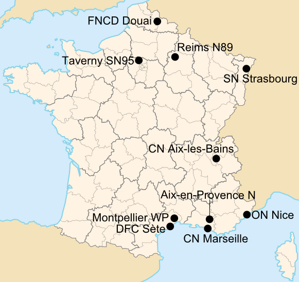 Map locating water polo clubs playing the Elite France Championship season 2010-2011.